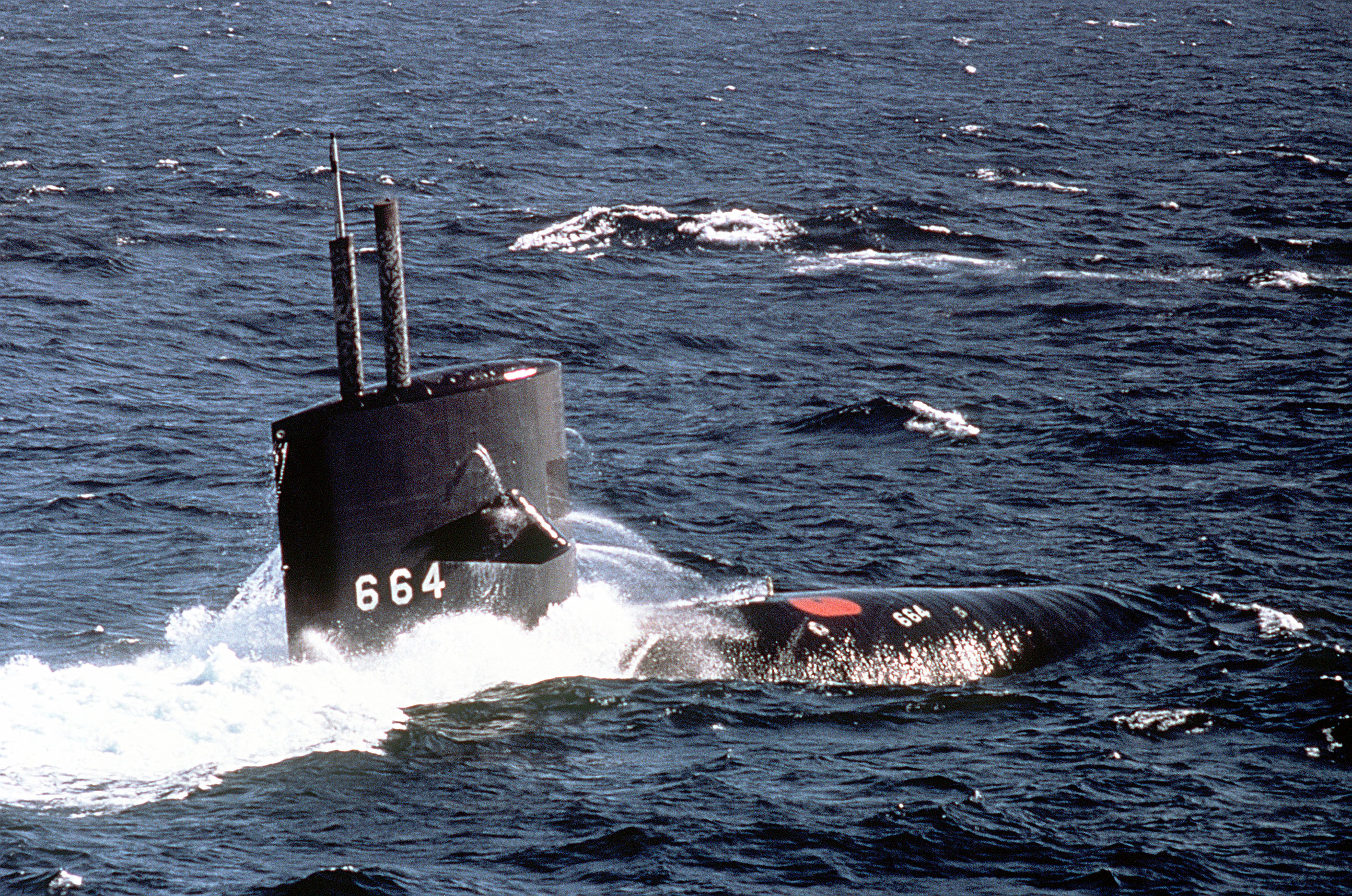 A starboard bow view of the nuclear-powered attack submarine USS SEA DEVIL (SSN-664) underway off the Virginia Capes.